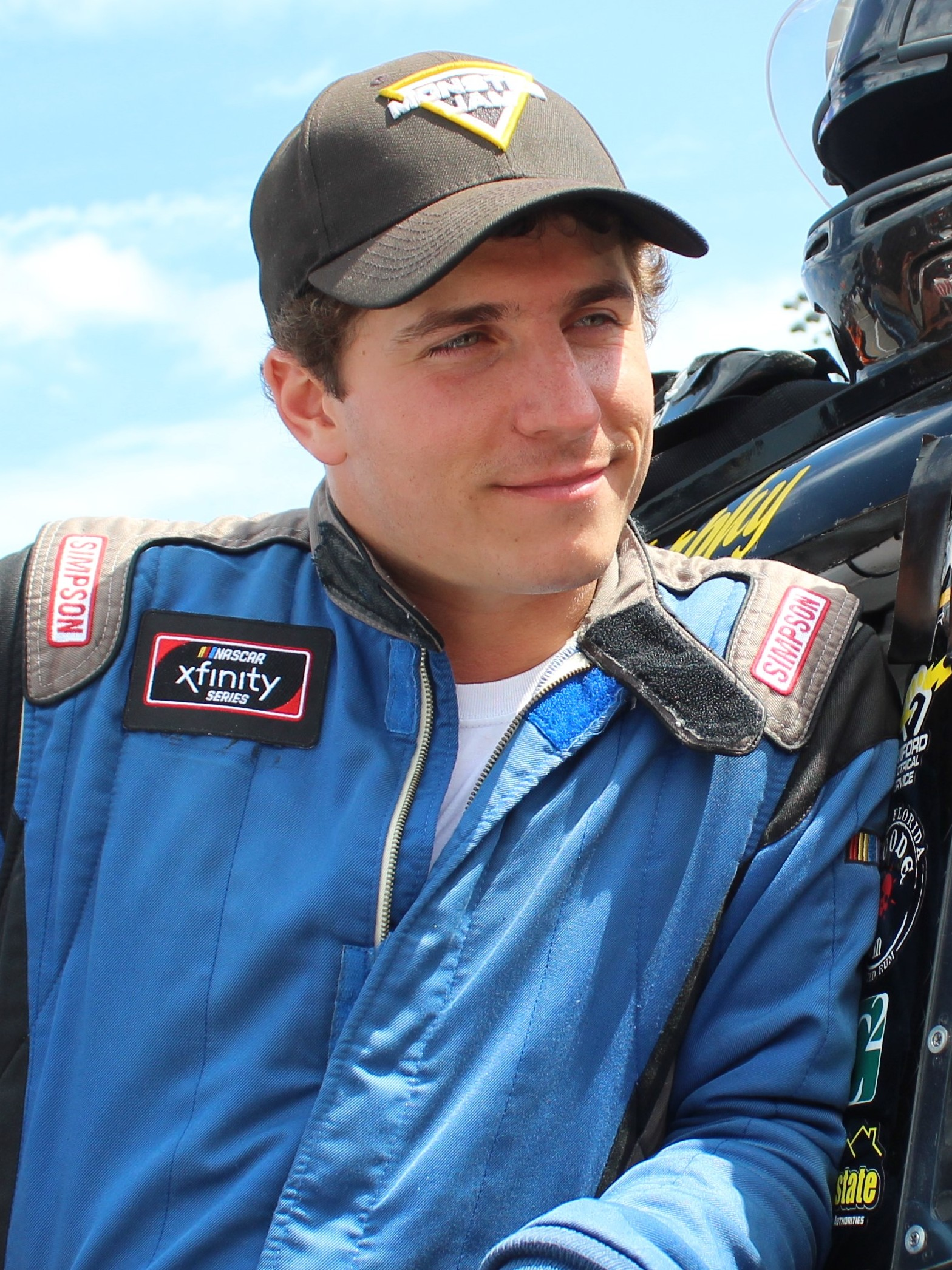 Camden Murphy talking with a young fan prior to an event at Darlington Raceway in 2019